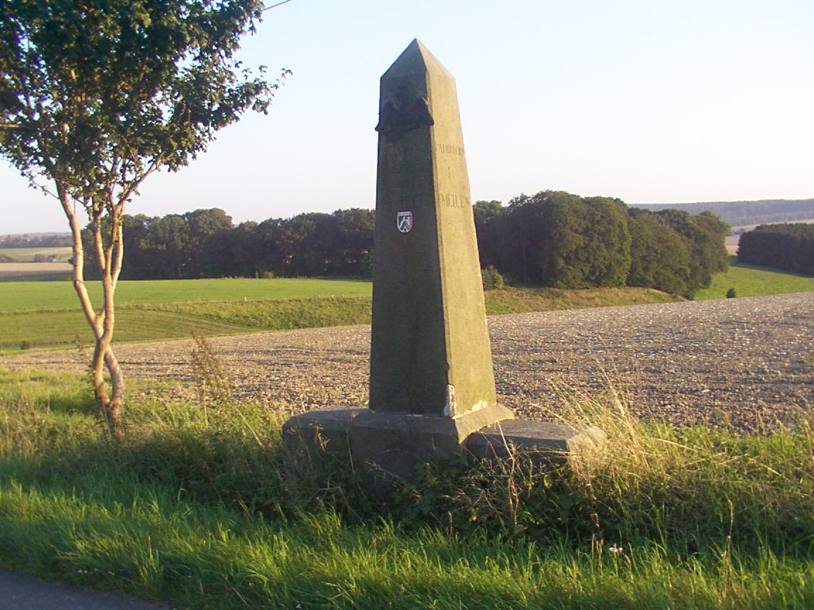 Borchen: milestone in Dörenhagen at the B 68. This is a photograph of an architectural monument. It is on the list of cultural monuments of Borchen